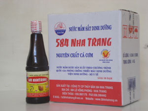 Nuoc mam 584 Nha Trang